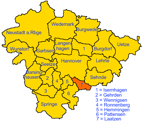 Location of Barsinghausen in Region Hannover